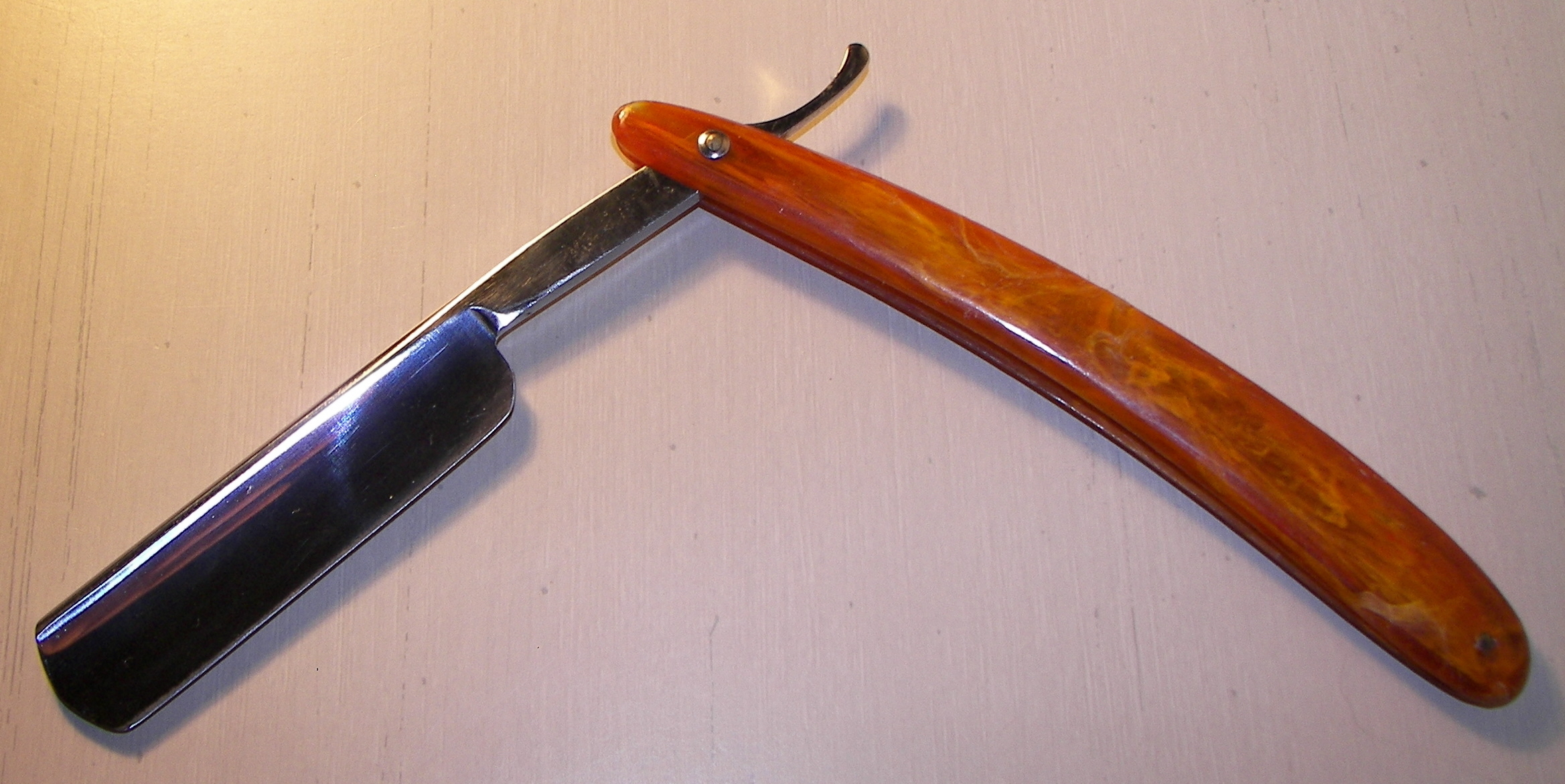 See description above